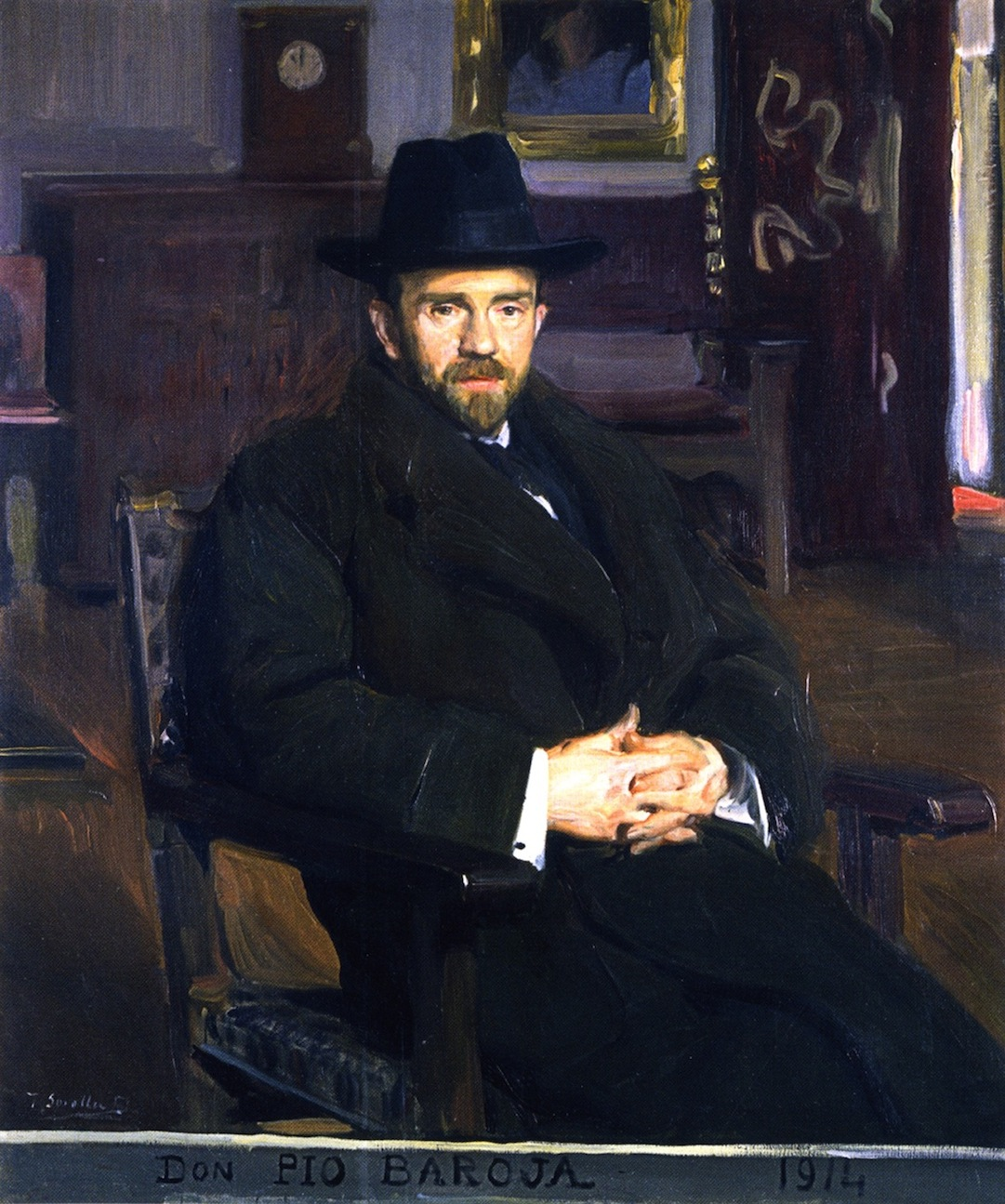 Don Pío Baroja.